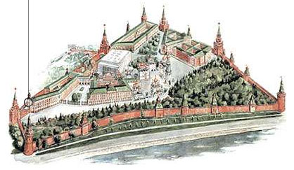 Overview map of the Moscow Kremlin. Location of Oruzheynaya Tower marked.